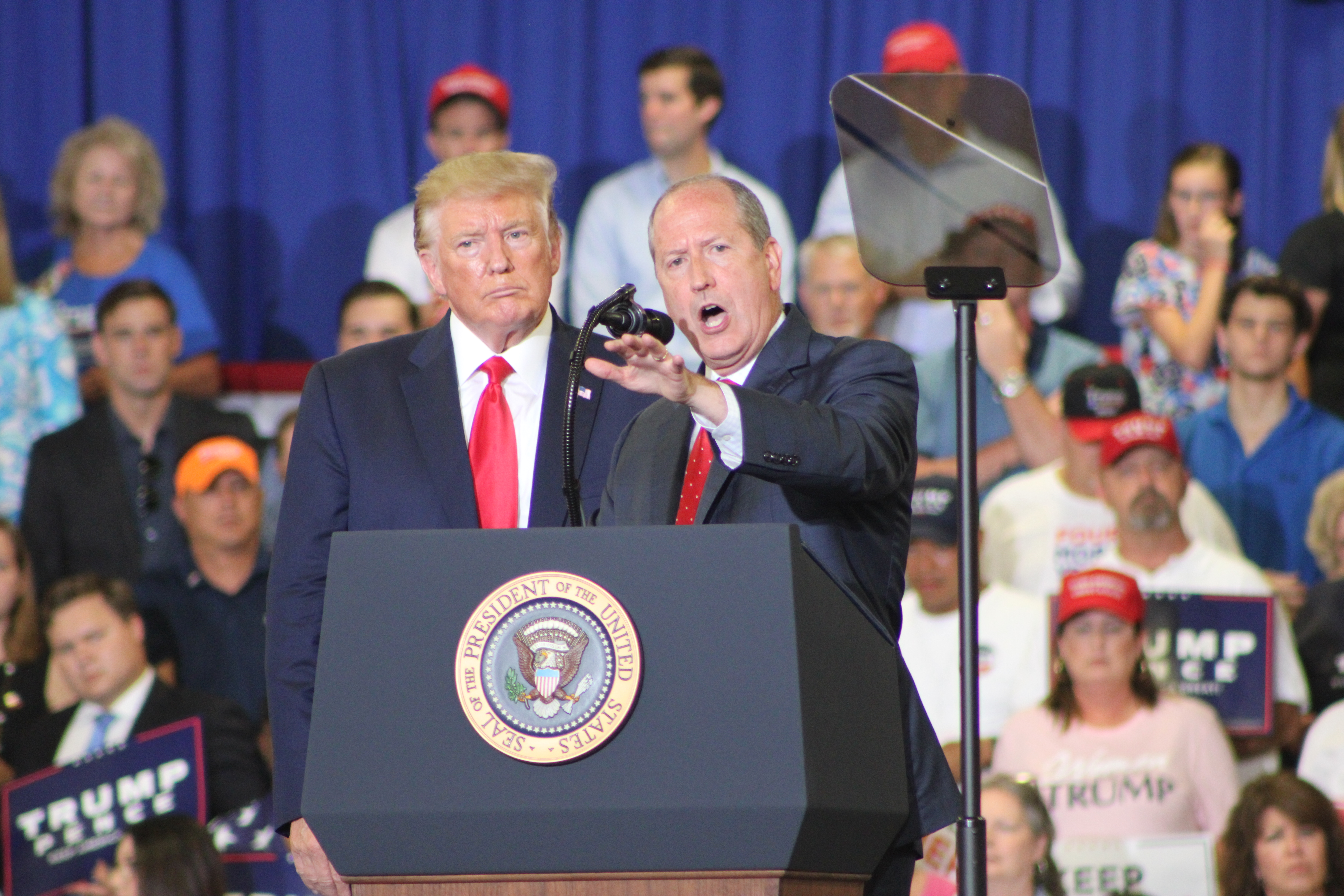 President Donald Trump and Dan Bishop at the Keep America Great rally in Fayetteville, NC on 9/9/2019